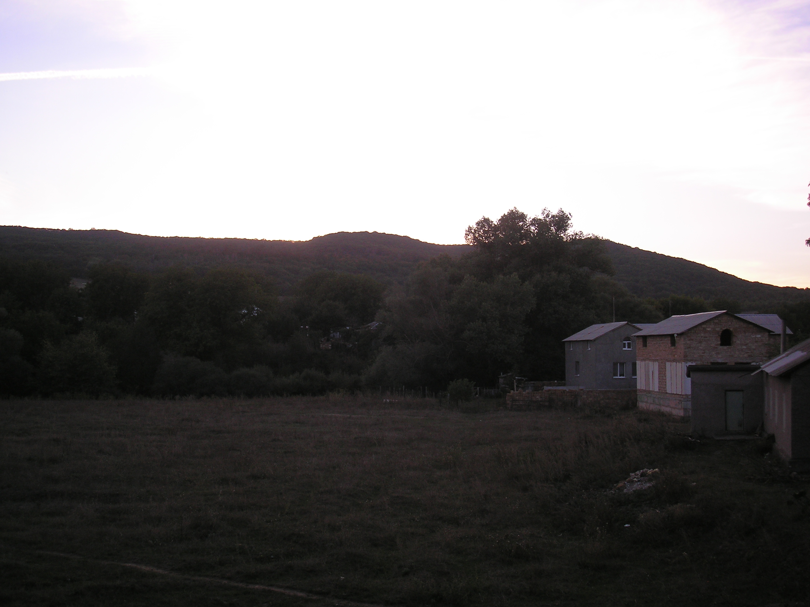 Village Krasnolesye, Simferopol district, Crimea